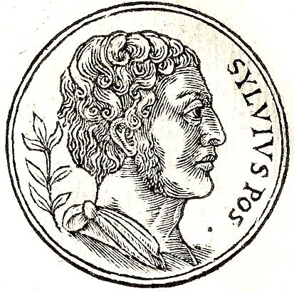 In Roman mythology, Silvius was the son of Aeneas and Lavinia. He succeeded Ascanius as King of Alba Longa. Virgil VI, 763. All the kings of Alba following Silvius bore the name as their cognomen.